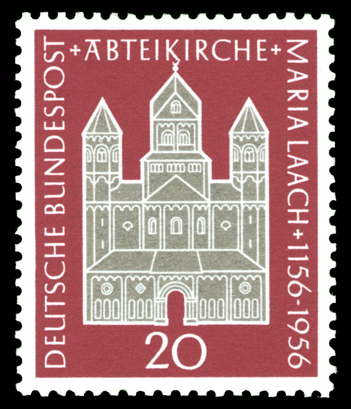 800 anniversary of the Maria Laach Abbey